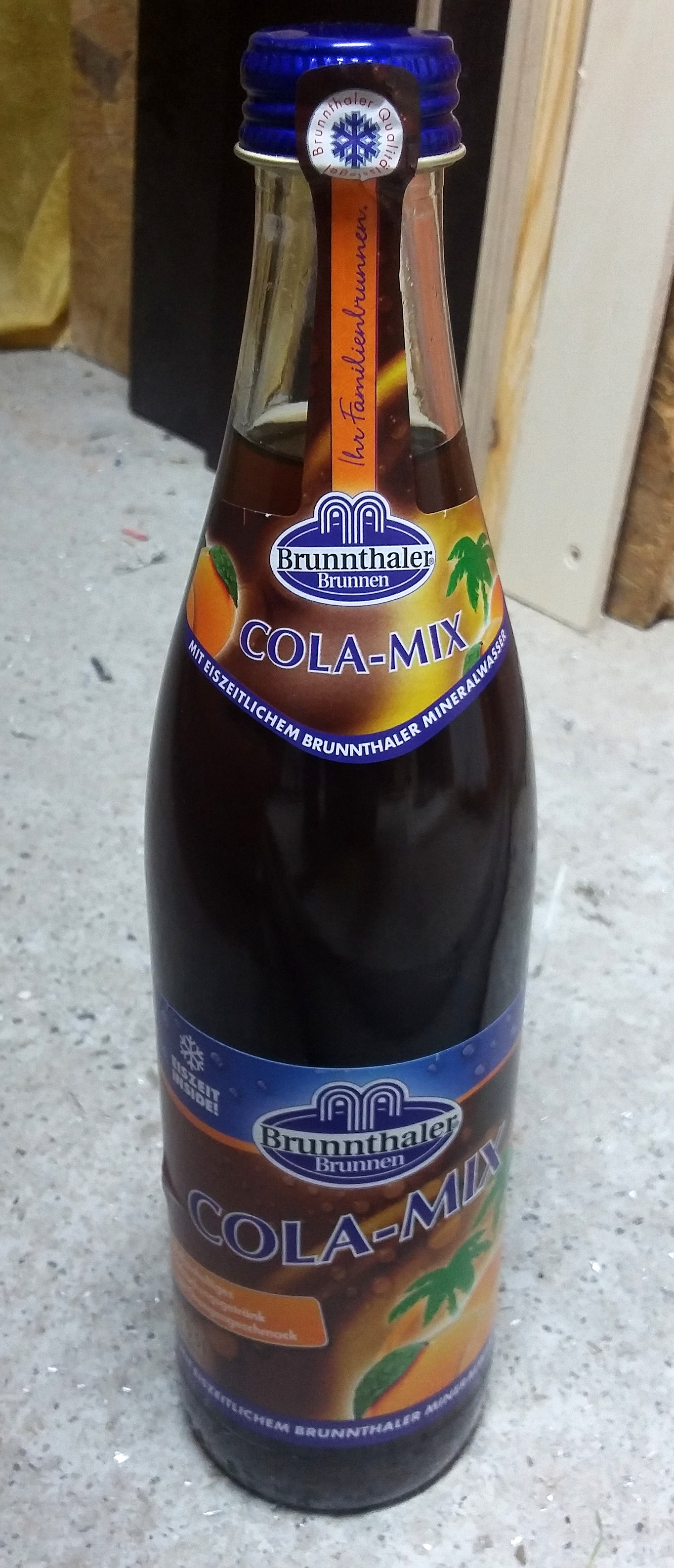 A bottle Brunnthaler Cola-Mix